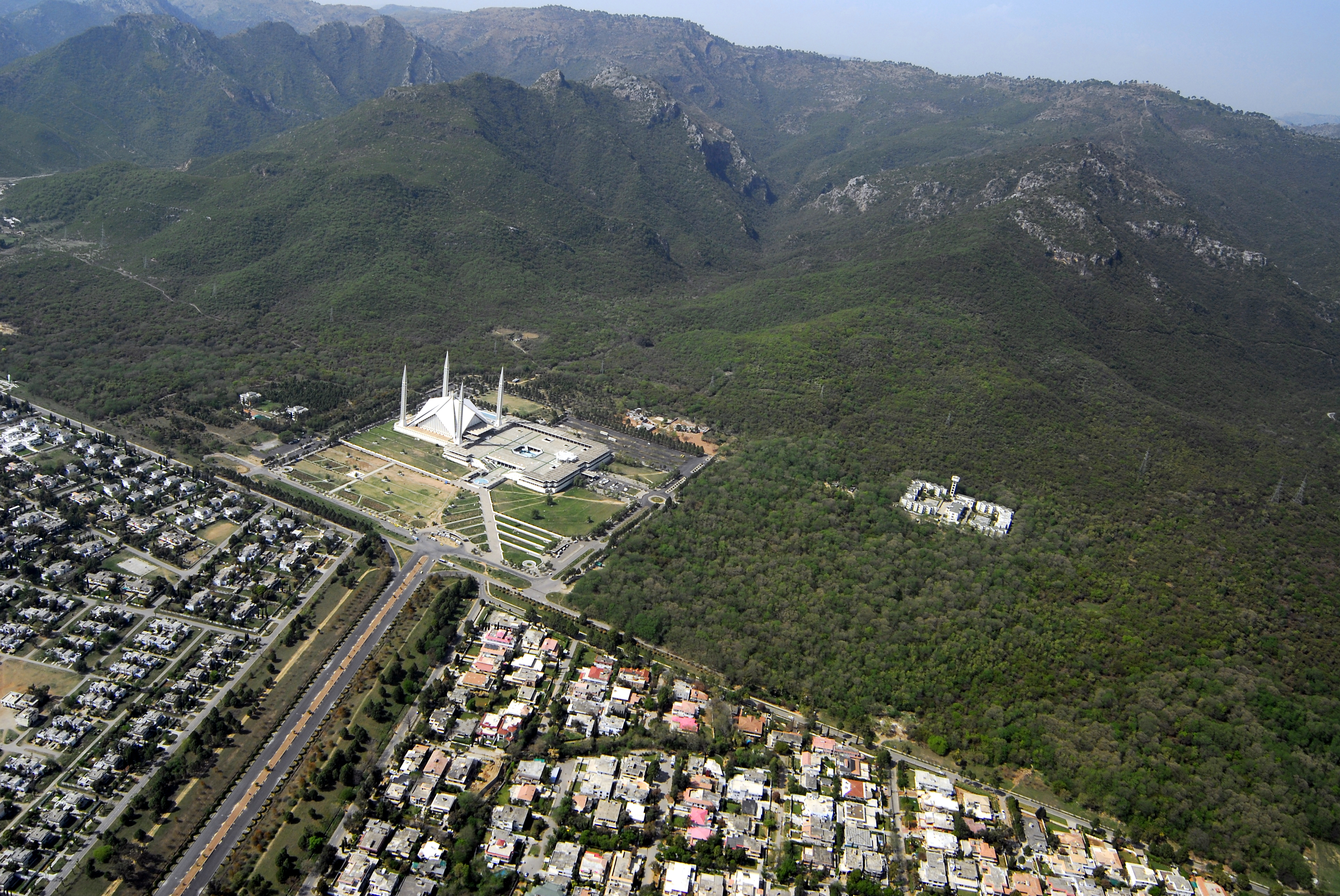 This is a photo of a monument in Pakistan identified as the ICT-5